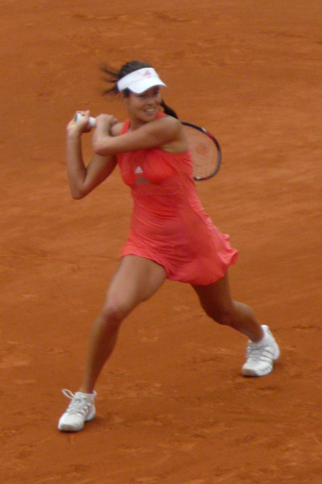 Ana Ivanović against Patty Schnyder in the 2008 French Open quarterfinals